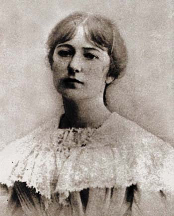 Muriel Armstrong, wife of Korean independence activists Seo Jae-pil. picture of before married